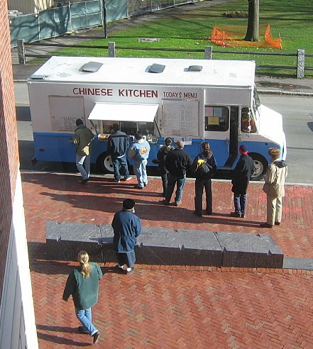 Chinese food truck, outside Maxwell Dworkin Hall, Harvard University.